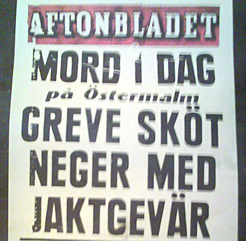 Newspaper poster for Aftonbladet issue 23 February 1970